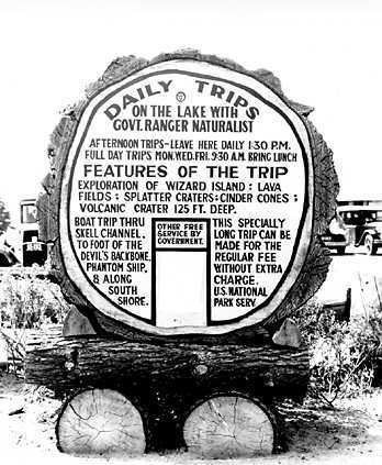 Park: Crater Lake National Park Description: Sign at Rim Area advertising daily trips on the lake with Ranger-Naturalist